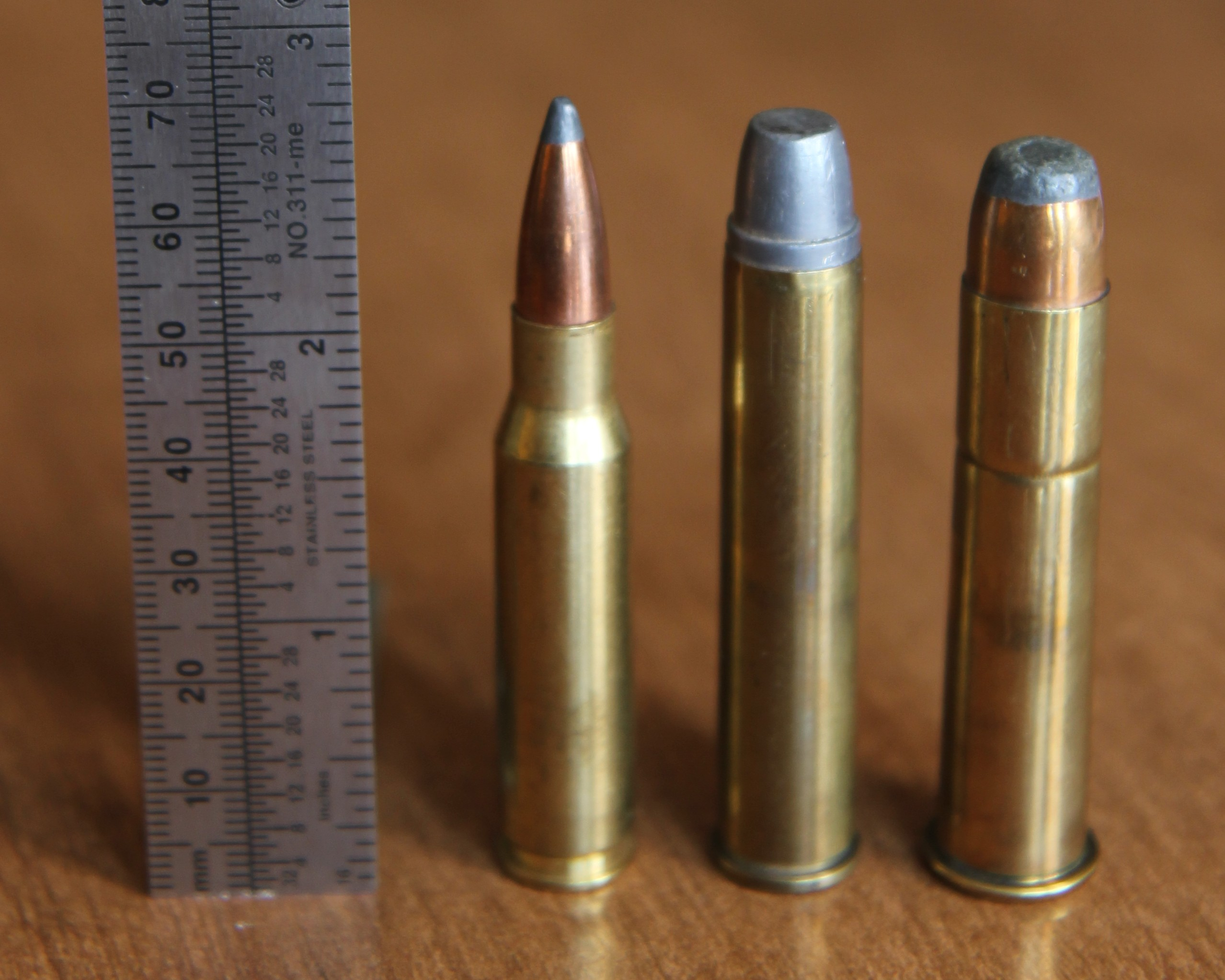 A .444 Marlin cartridge next to a metric/imperial ruler with .45/70 and .308 Winchester cartridges for comparison.